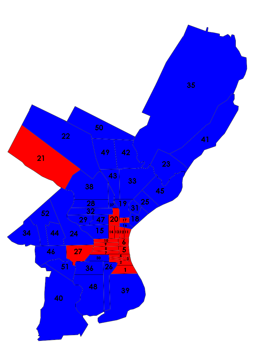 1951 Philadelphia mayor election by ward